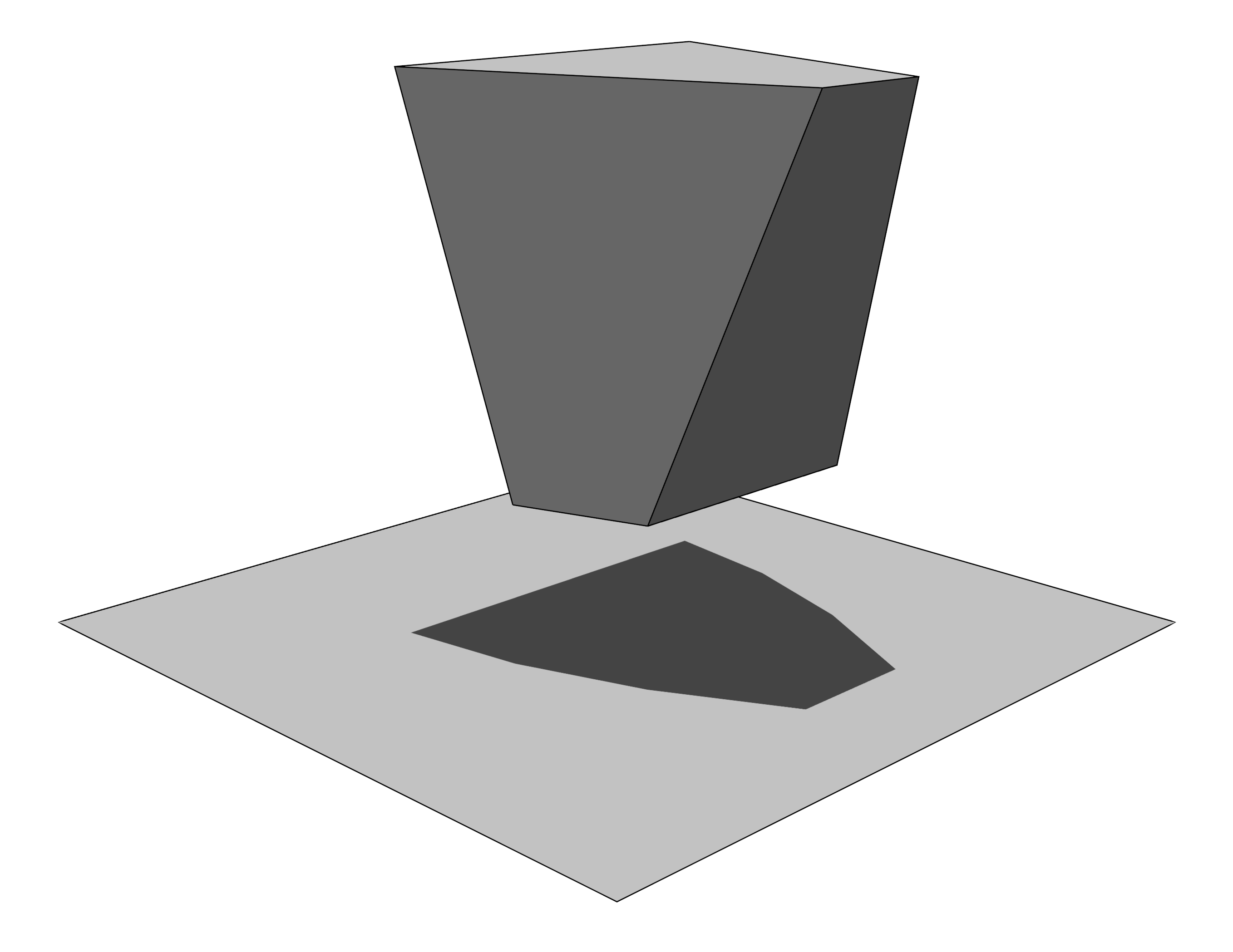 Illustration of 3-dimensional worst-case instance for the shadow vertex simplex method with six facets. Due to Murty (1980) and Goldfarb (1983, 1994). Description for this object was taken from Amenta and Ziegler (1996) with epsilon = 1/3 and epsilon*gamma = 1/16. The object is a deformed cube and its projection onto a two-dimensional plane has 8 vertices. Rendered using Blender with Freestyle option turned on, from a wavefront (.obj) file calculated from the given inequalities.